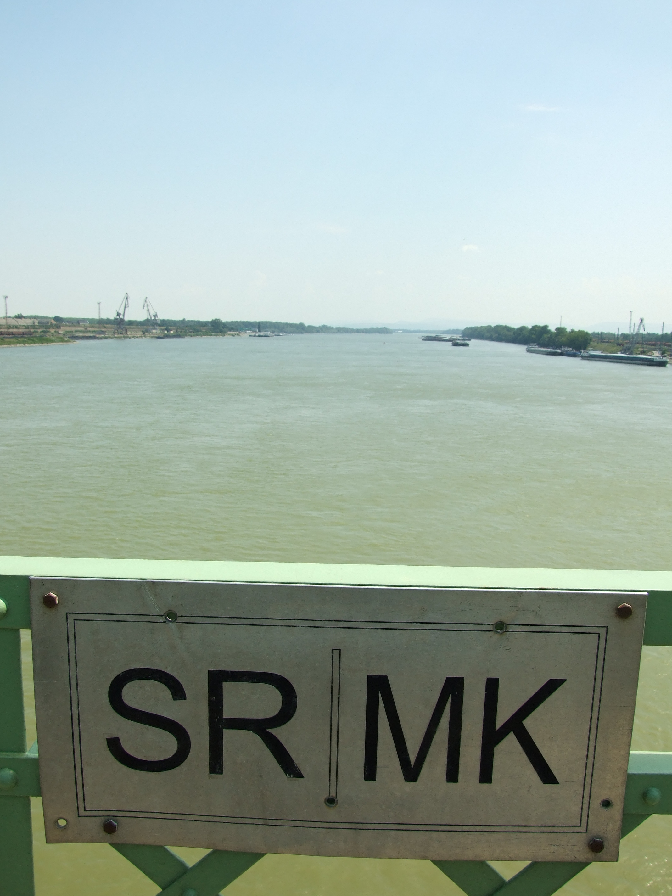 Exact place of Slovak-Hungarian border in the center of Danube in Komárno on Erzsebed híd, Slovakia (on the left) and Hungary (on the right)help